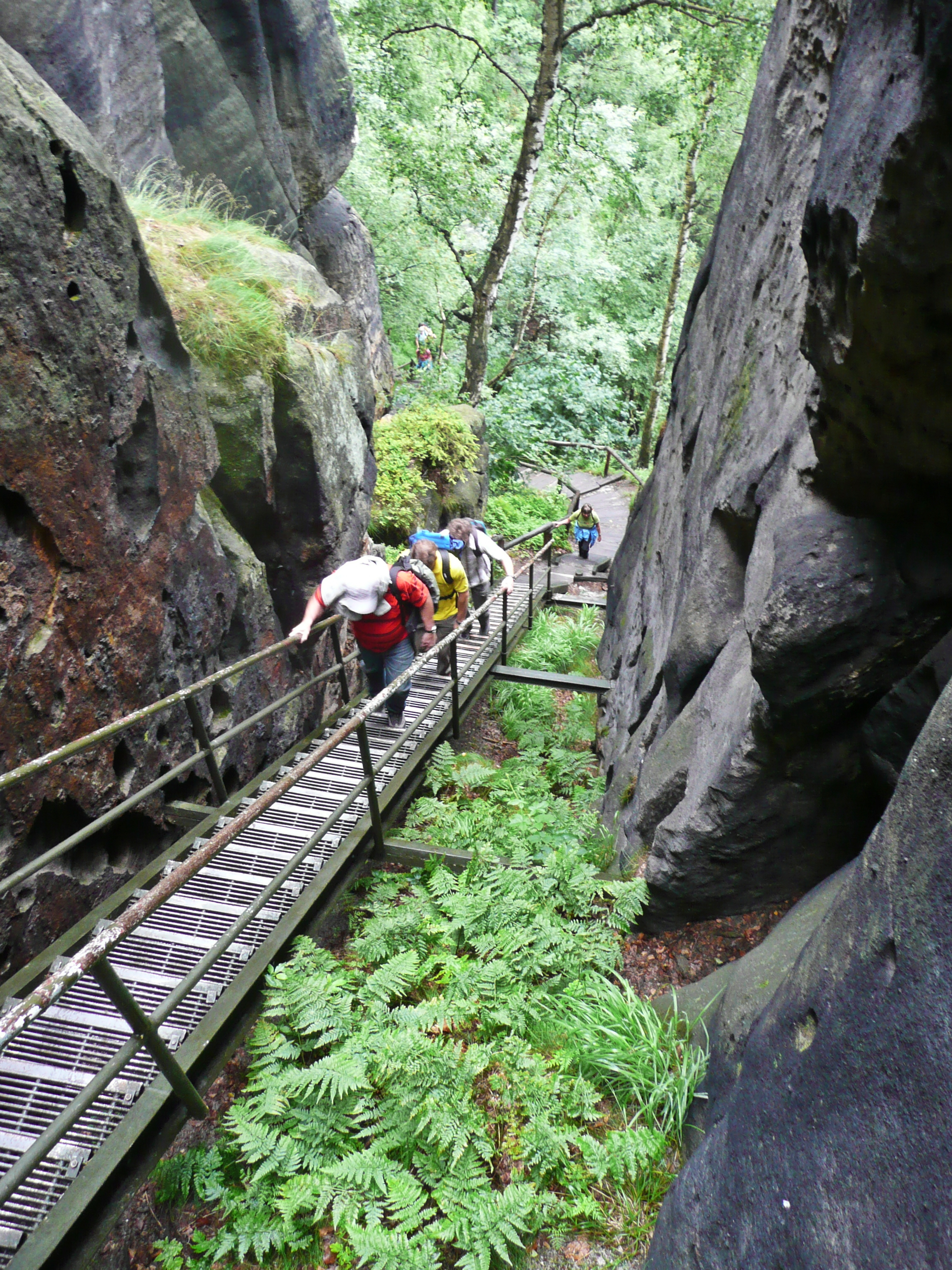 This image shows the "Heilige Stiege", a hiking trail in the Saxon Switzerland.